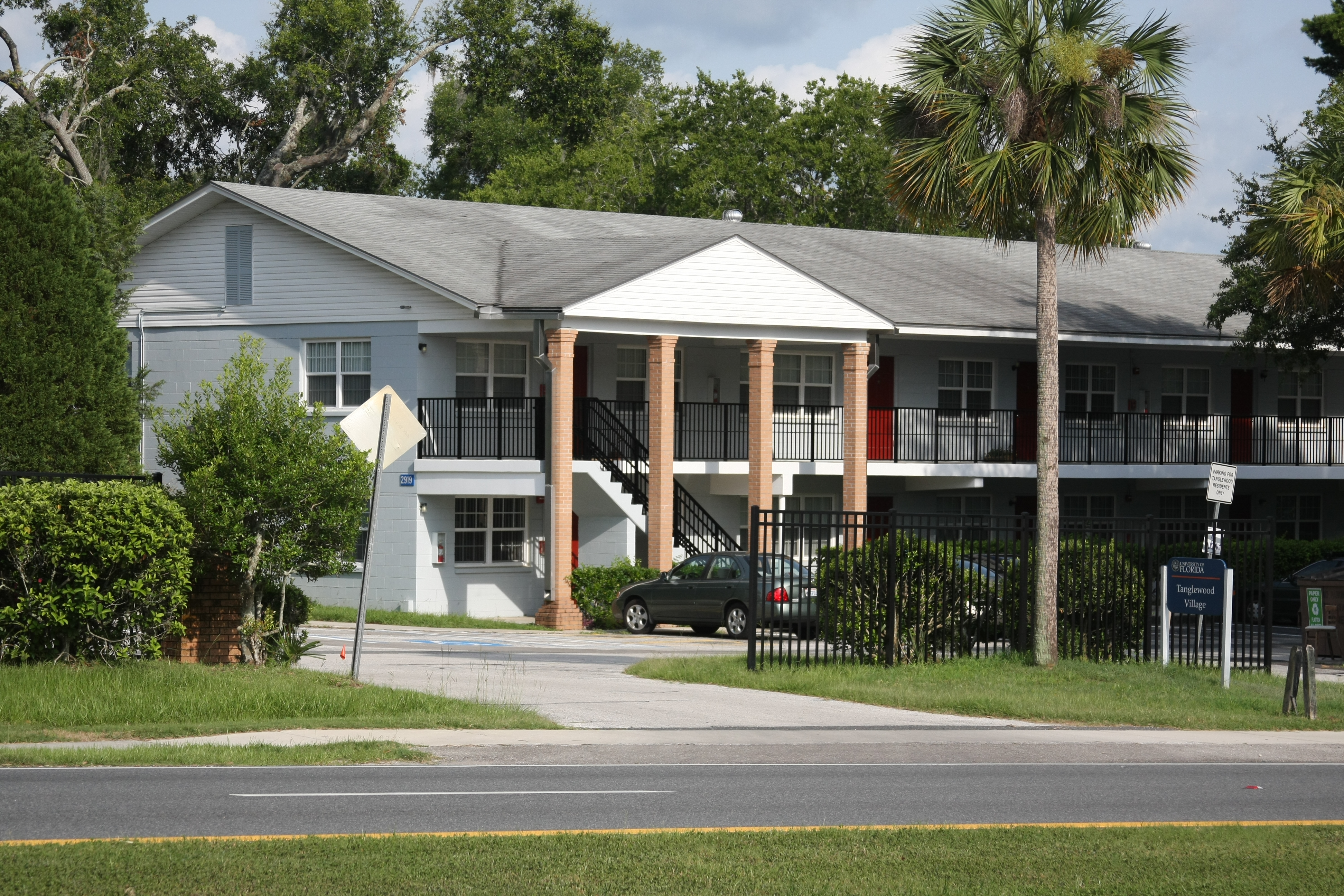 Tanglewood Village student housing at the University of Florida